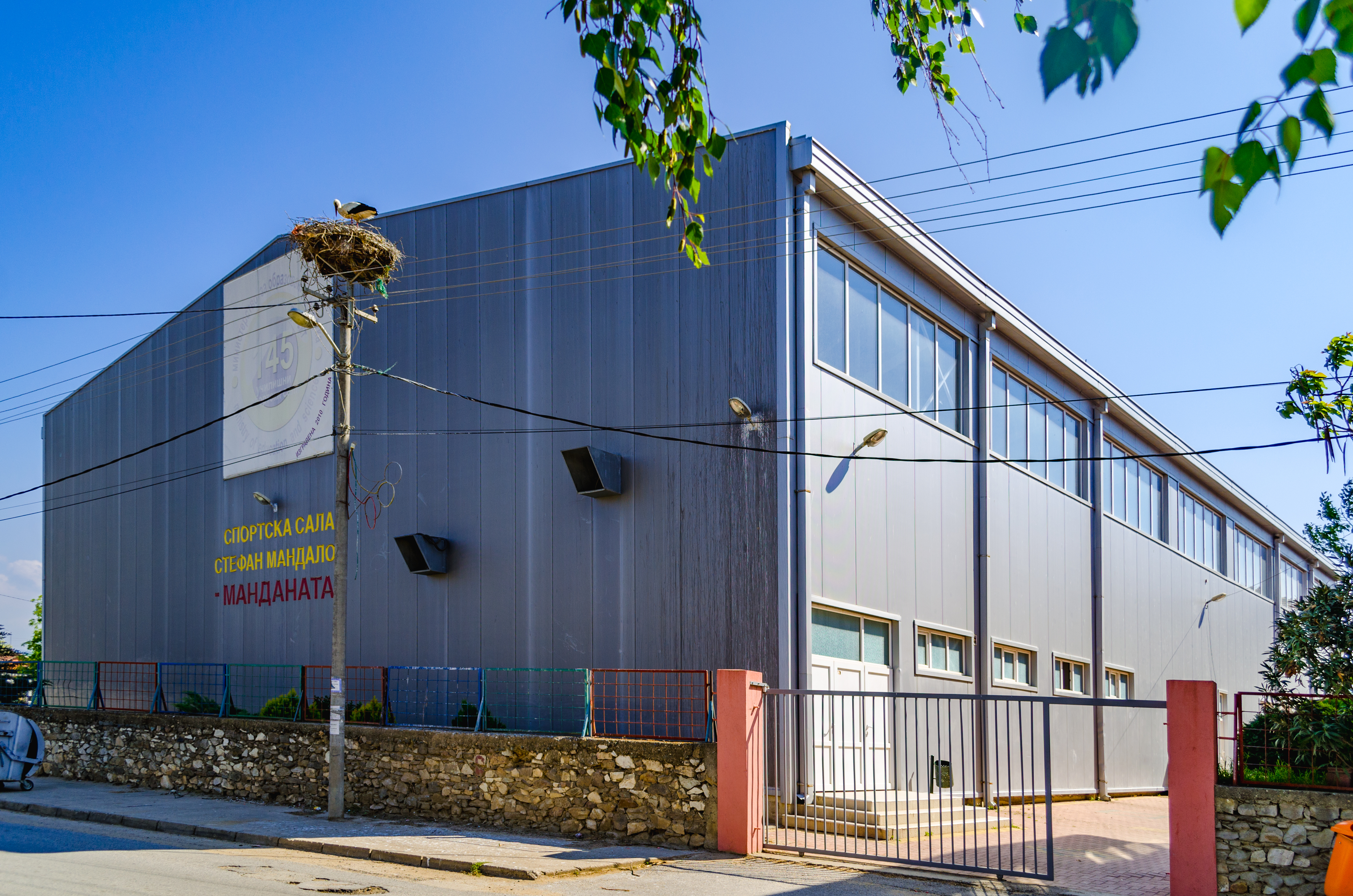 Sport hall in the village Stojakovo